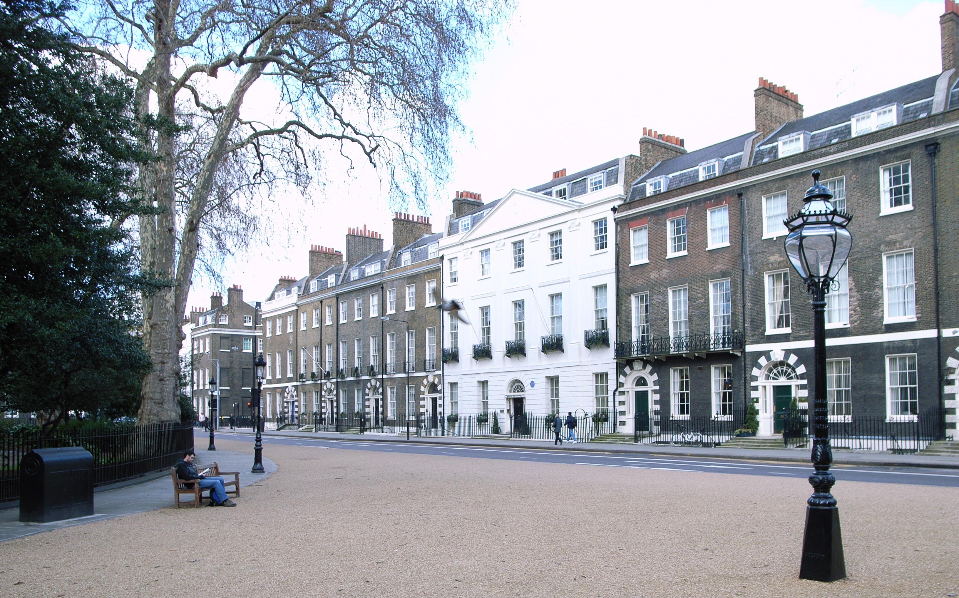 Bedford Square, Bloomsbury. (~1775, by Thomas Leverton?) Bloomsbury's best-preserved and most beautiful Georgian Square.